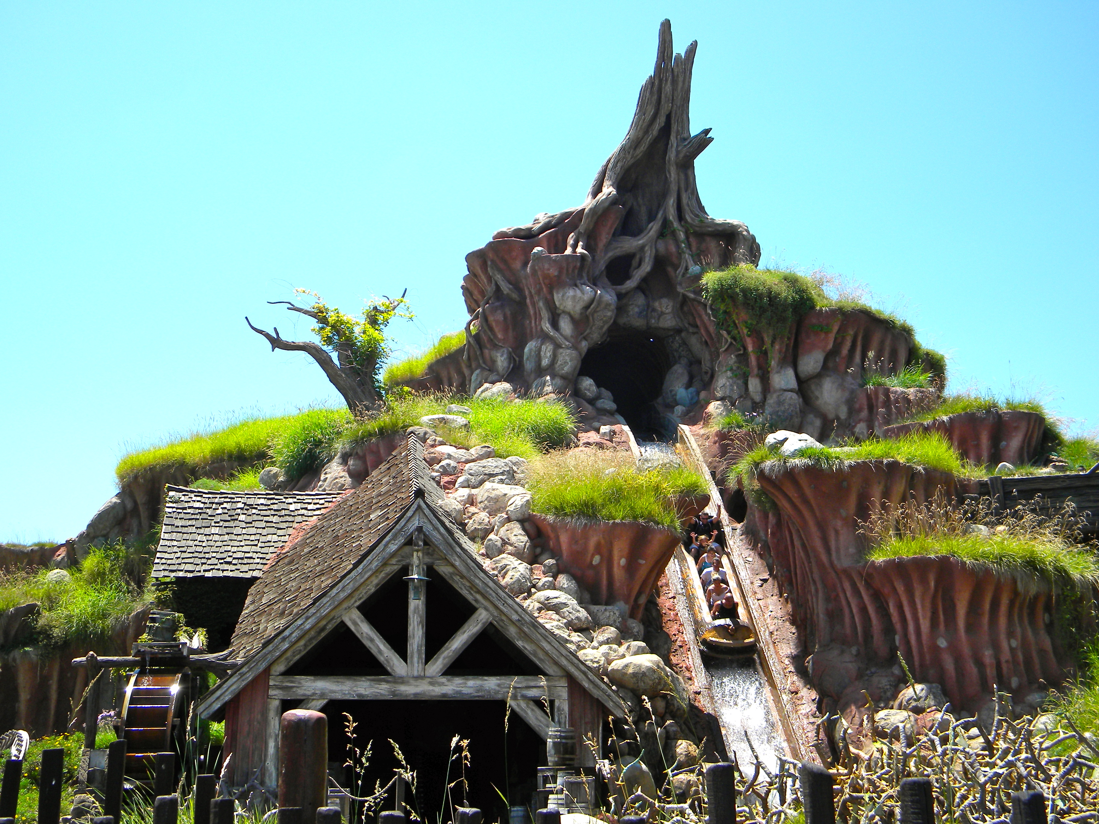 Splash Mountain is a ride in Disneyland based on the movie Song of the South.